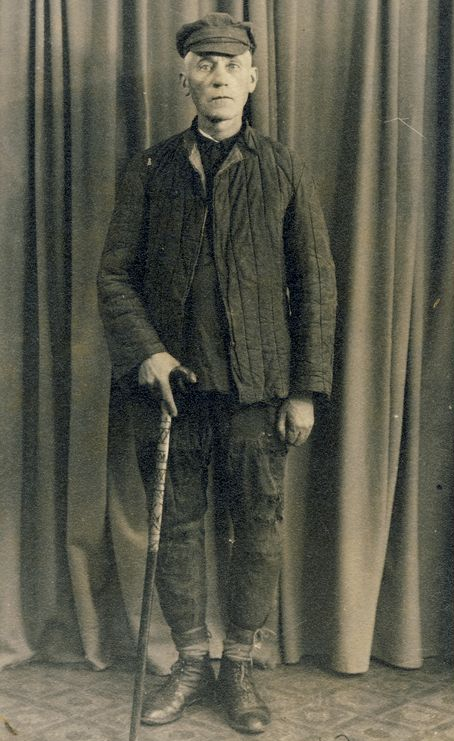 Teofilius Matulionis after his return from a Soviet prison